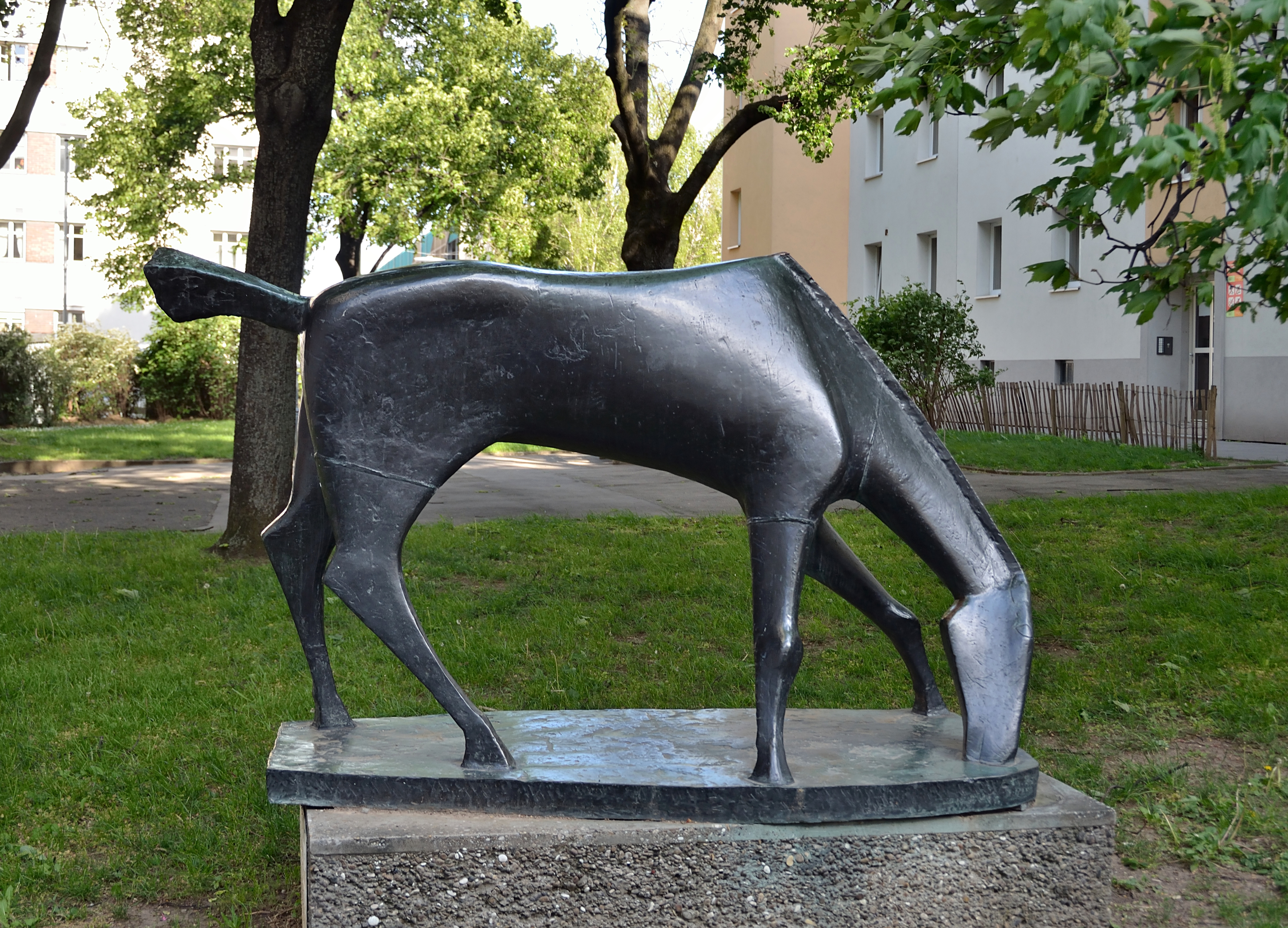 Bronzesculpture Pferd (horse) by Alois Heidel in public housing Leebgasse 102-106 in Favoriten, VIenna.